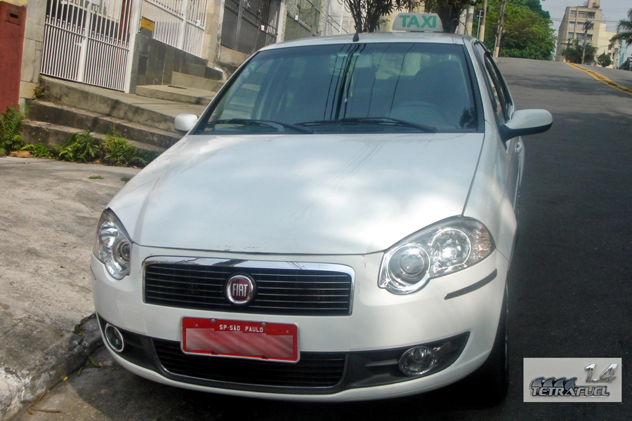 Frontal view of the Fiat Siena Tetrafuel, taken at Sao Paulo, Brazil, with insert showing the fixture that identifies it as a multifuel vehicle.